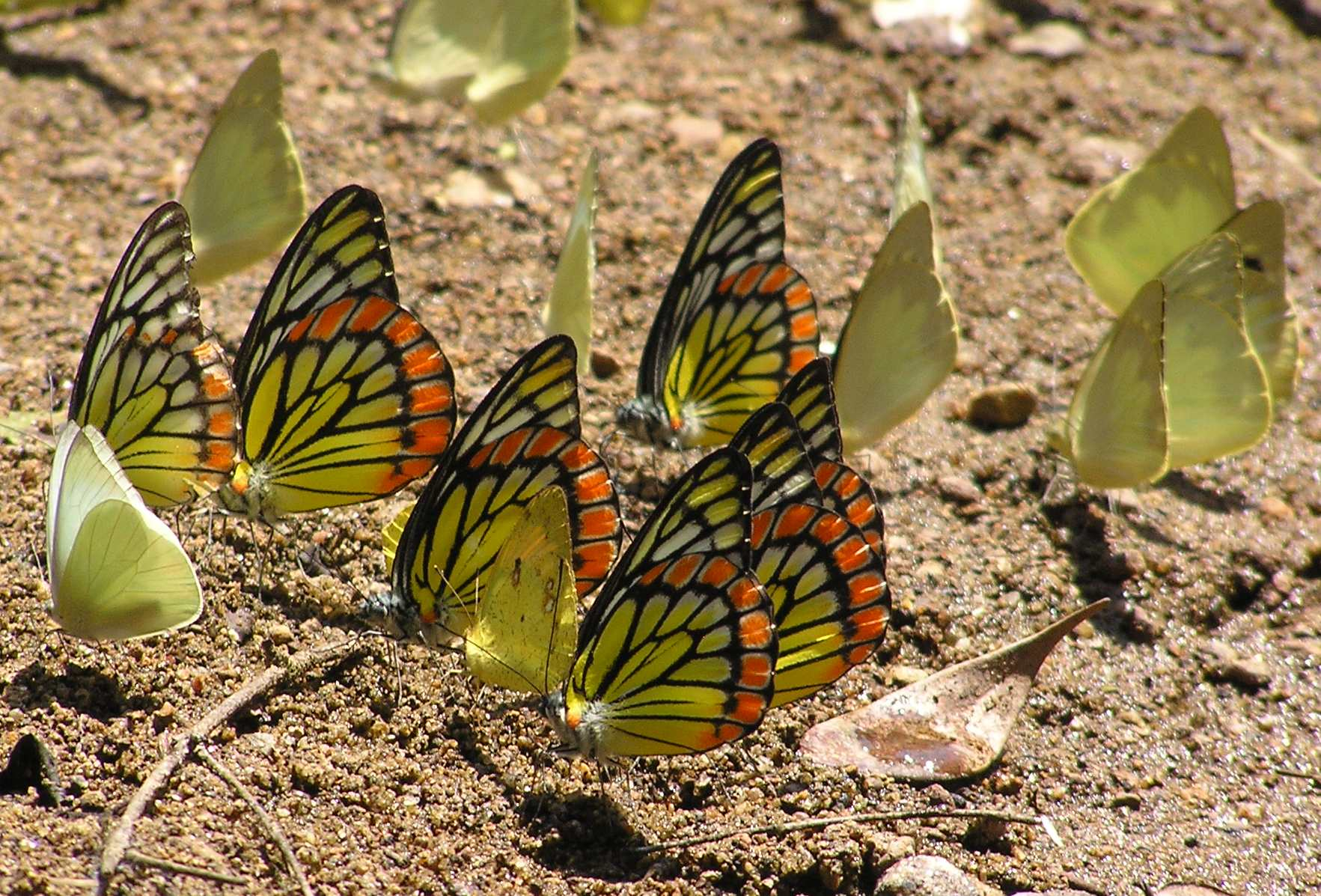 Painted Sawtooths (Prioneris sita) mudpuddling.